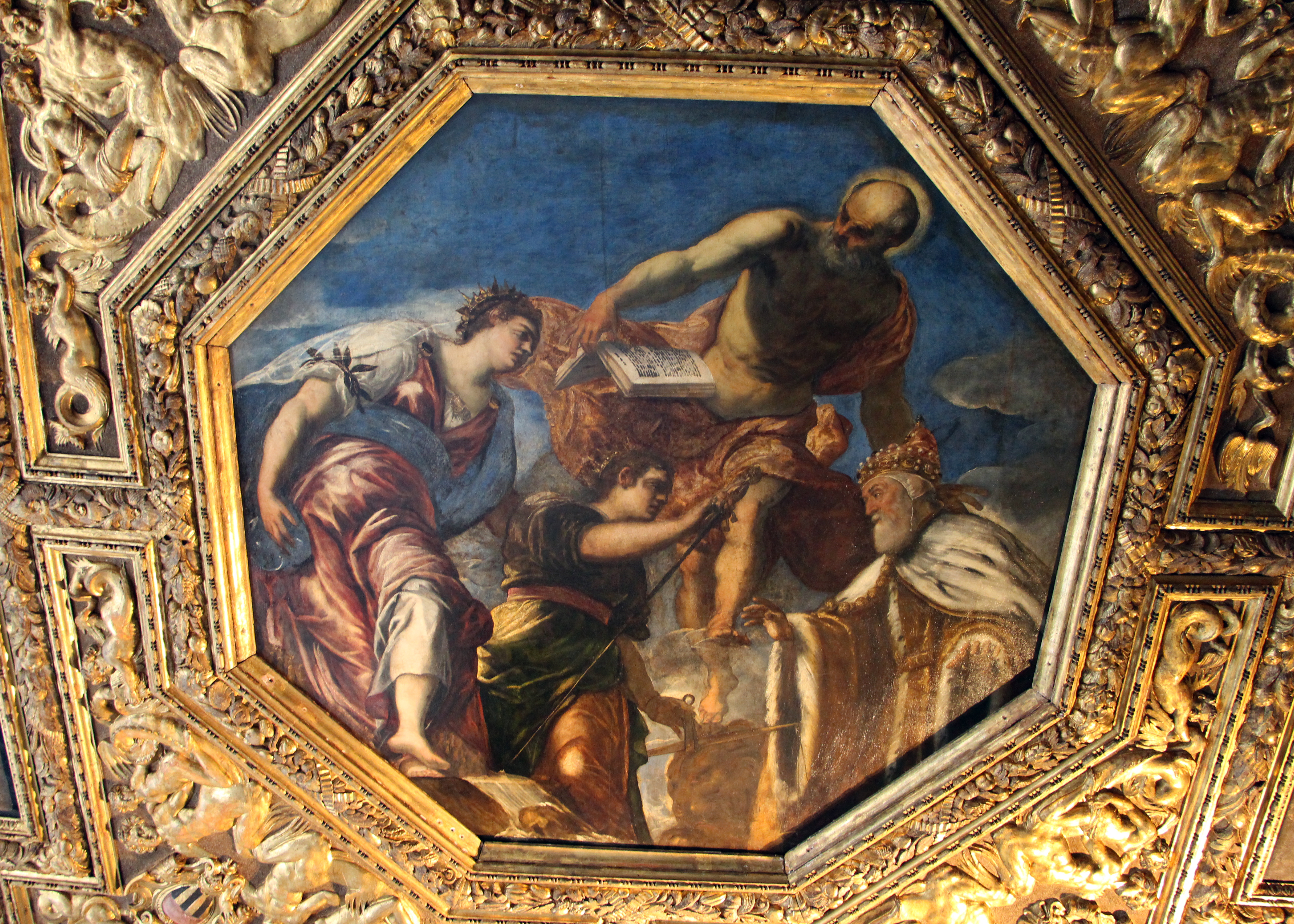 In the center of the ceiling, an octagonal painting depicts Doge Priuli kneeling before two allegorical figures: Justice with her sword and scales and Peace with her olive branch. The allegories of Justice and Peace were two virtues with which the Venetian Republic especially venerated.